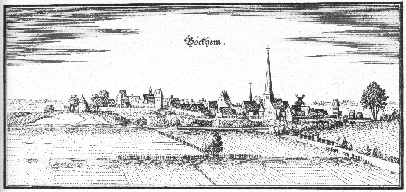 Copper-engraving of the view on Beckum by Matthäus Merian. Published in "Topographia Germaniae" edition: "Topographia Westphaliae" in 1647. This scan was made from a facsimile-print published in 1961 by Bärenreiter, Kassel based on the original edition.